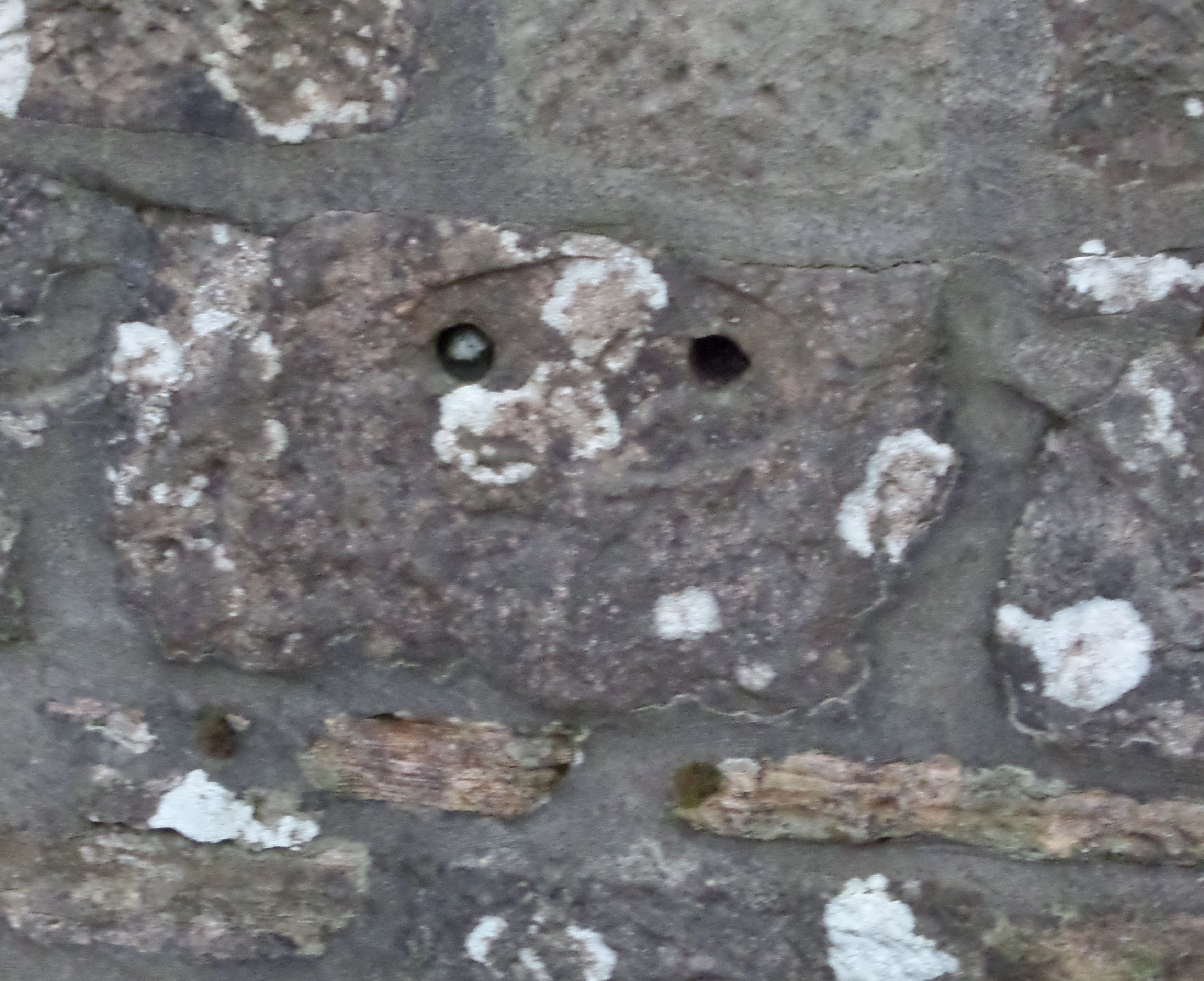 A Stone railway sleeper, Auchincruive Waggonway, South Ayrshire, Scotland. Built into a wall with chair impression.